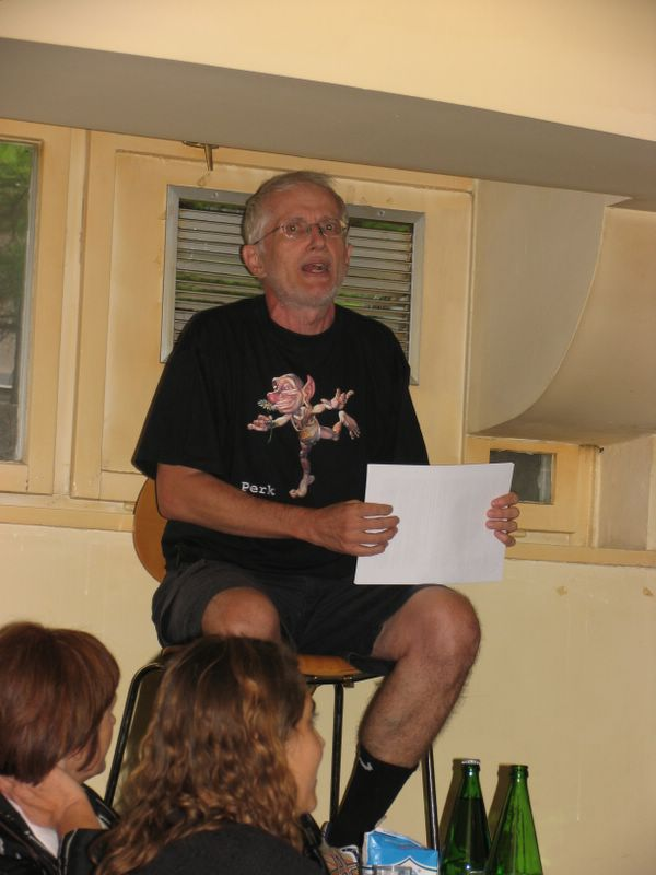 Branko Gradišnik, Slovenian translator and writer